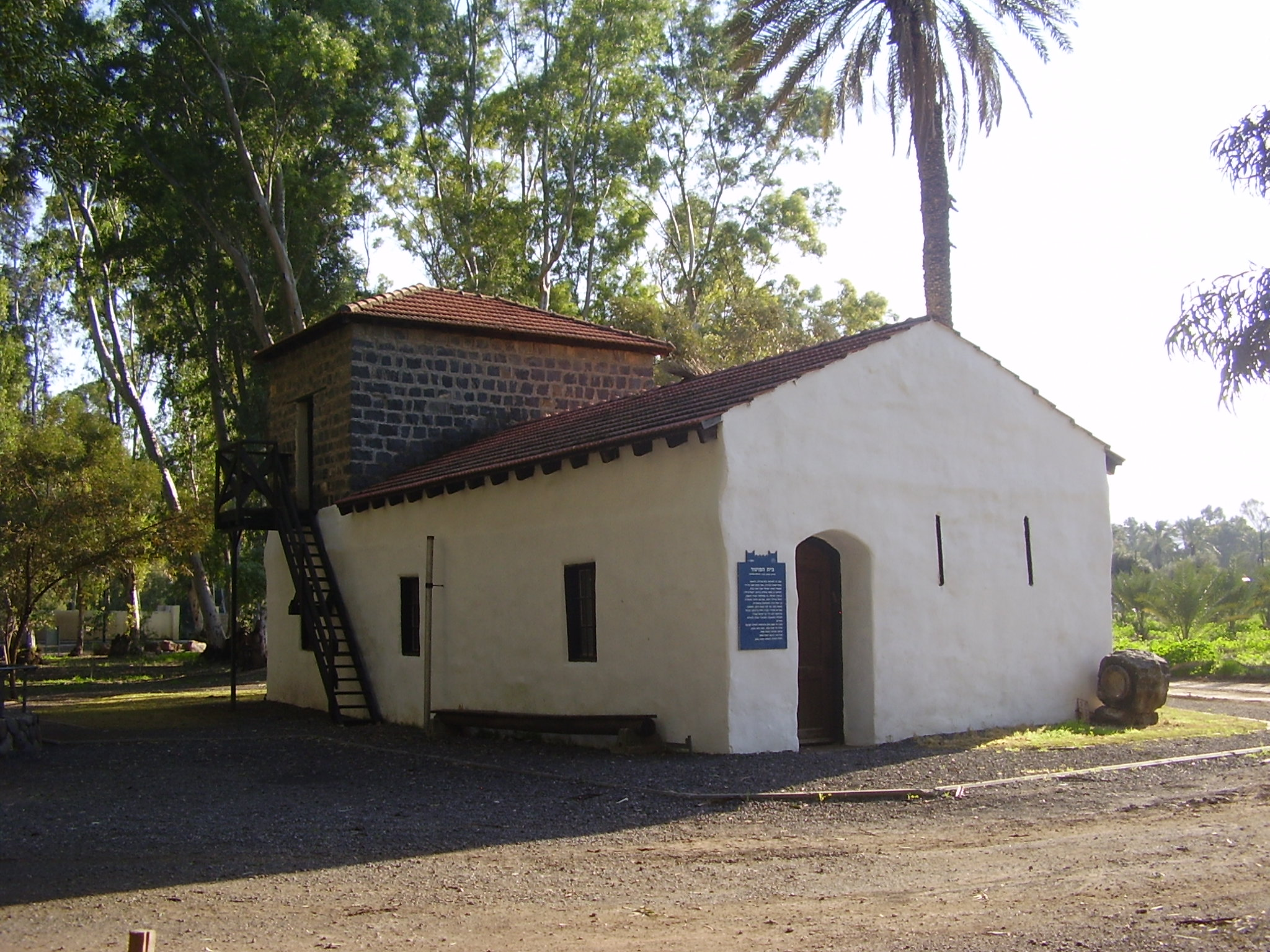 Motor house near Kibbutz Kineret